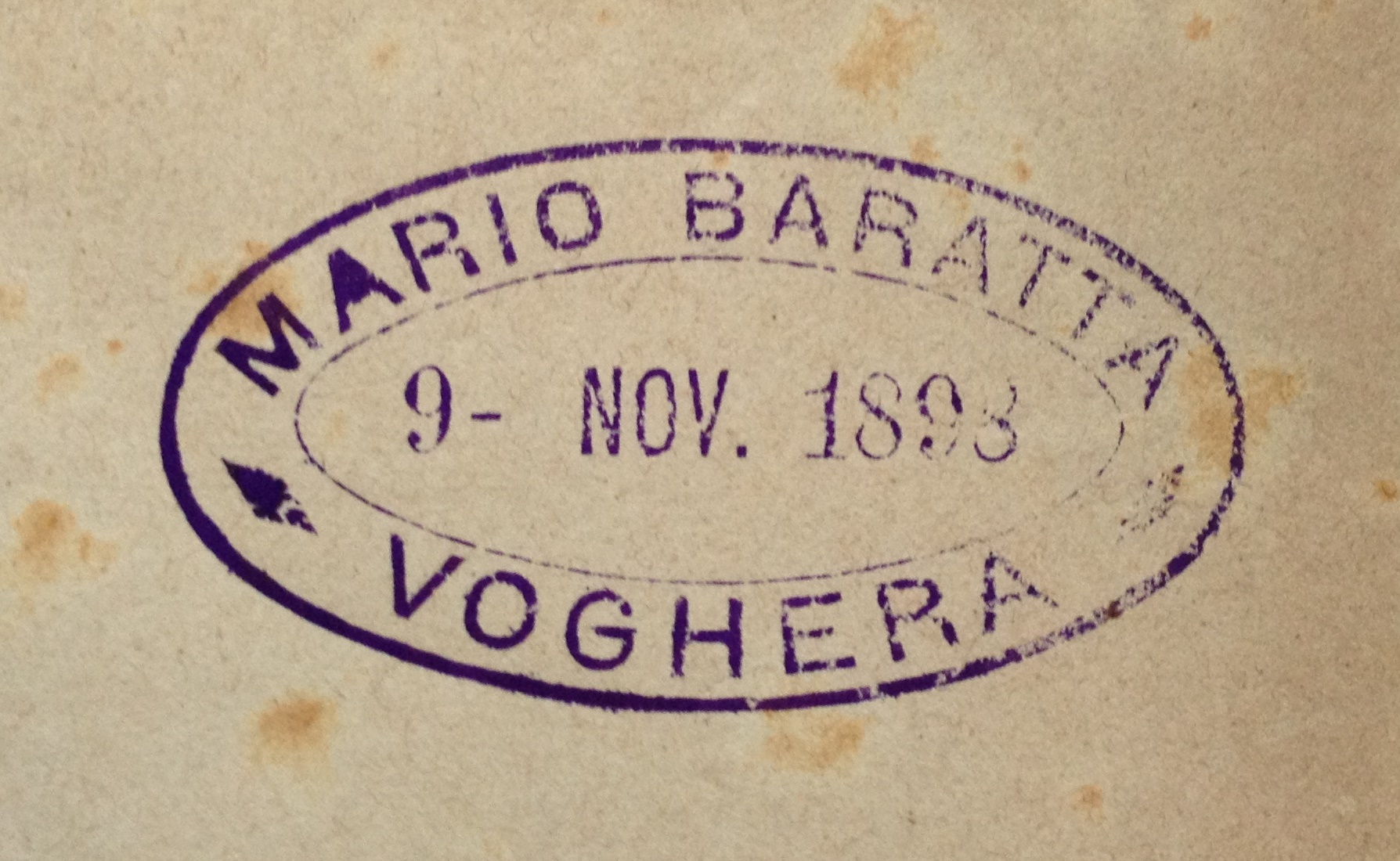 Mario Baratta 1898 stamp